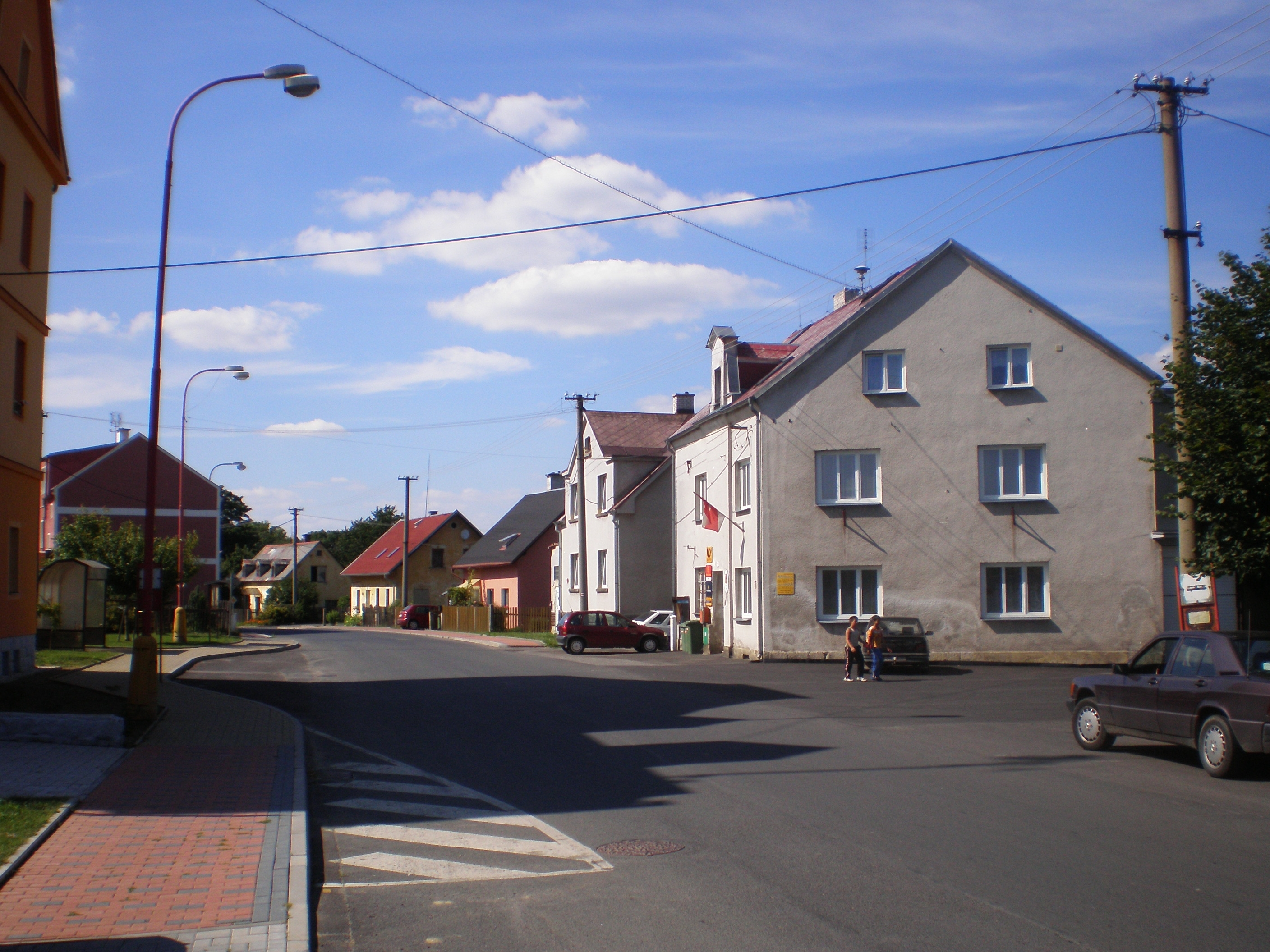 Krásná in Cheb District, Czech Republic.